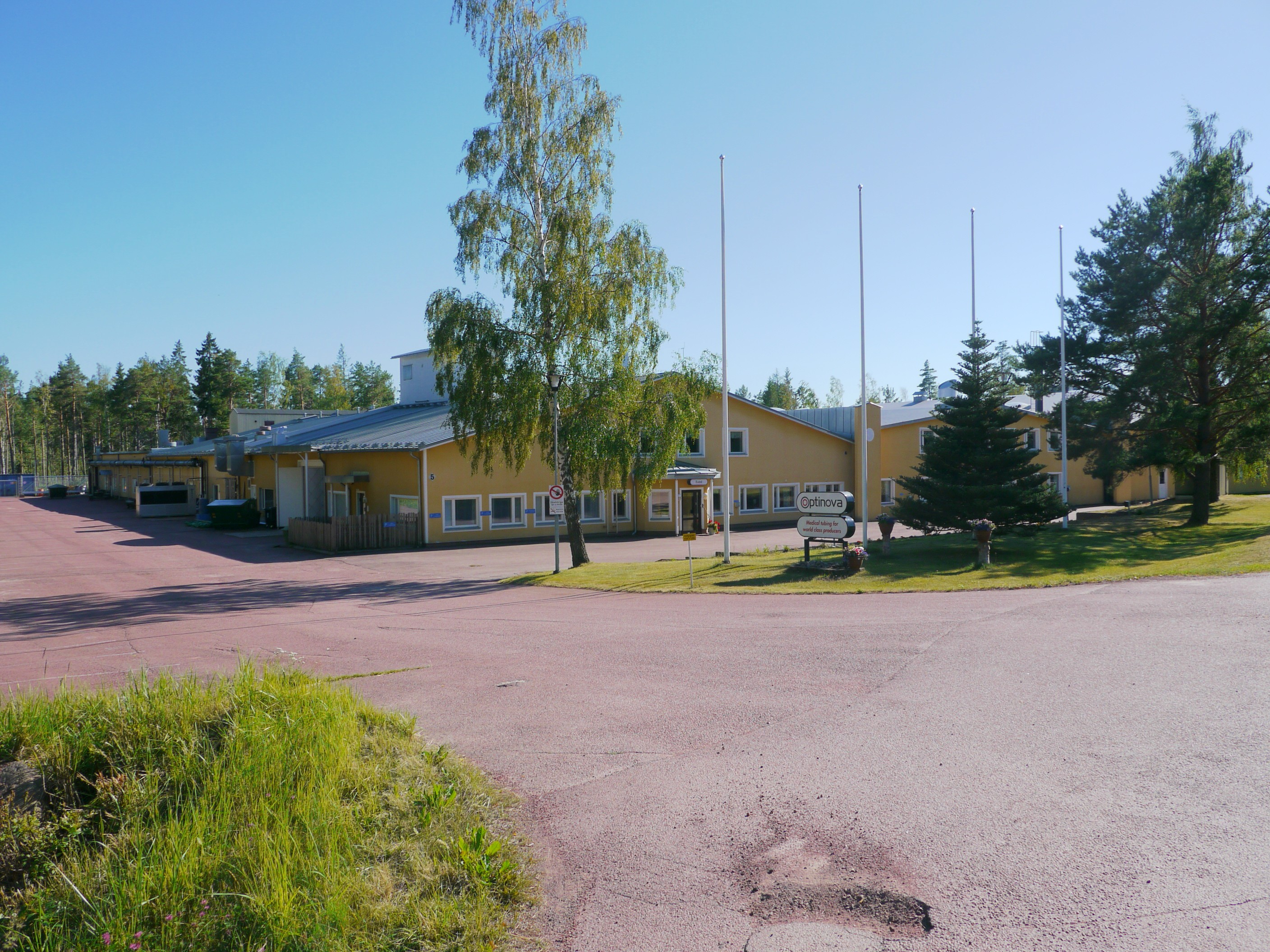 Optinova company (medical materials) in Godby, Åland